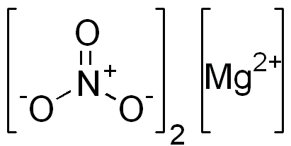 chemical structure of magnesium nitrate